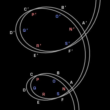 Clare W. Graves's diagram of the spiraling double helix view of his emergent cyclical levels of existence theory, adapted from the black-and-white Exhibit VII.1 on page 175 of The Never Ending Quest (Graves; Cowan & Todorovic (eds.), 2005). A-F are the successive existential problems / life conditions, while N-S are the responding emergent bio-psycho-social systems. Prime (') marks indicate the second cycle, with each cycle shown as a loop of a widening spiral double helix. Colors added to show express-self (pink) vs sacrifice-self (blue) bio-psycho-social systems.